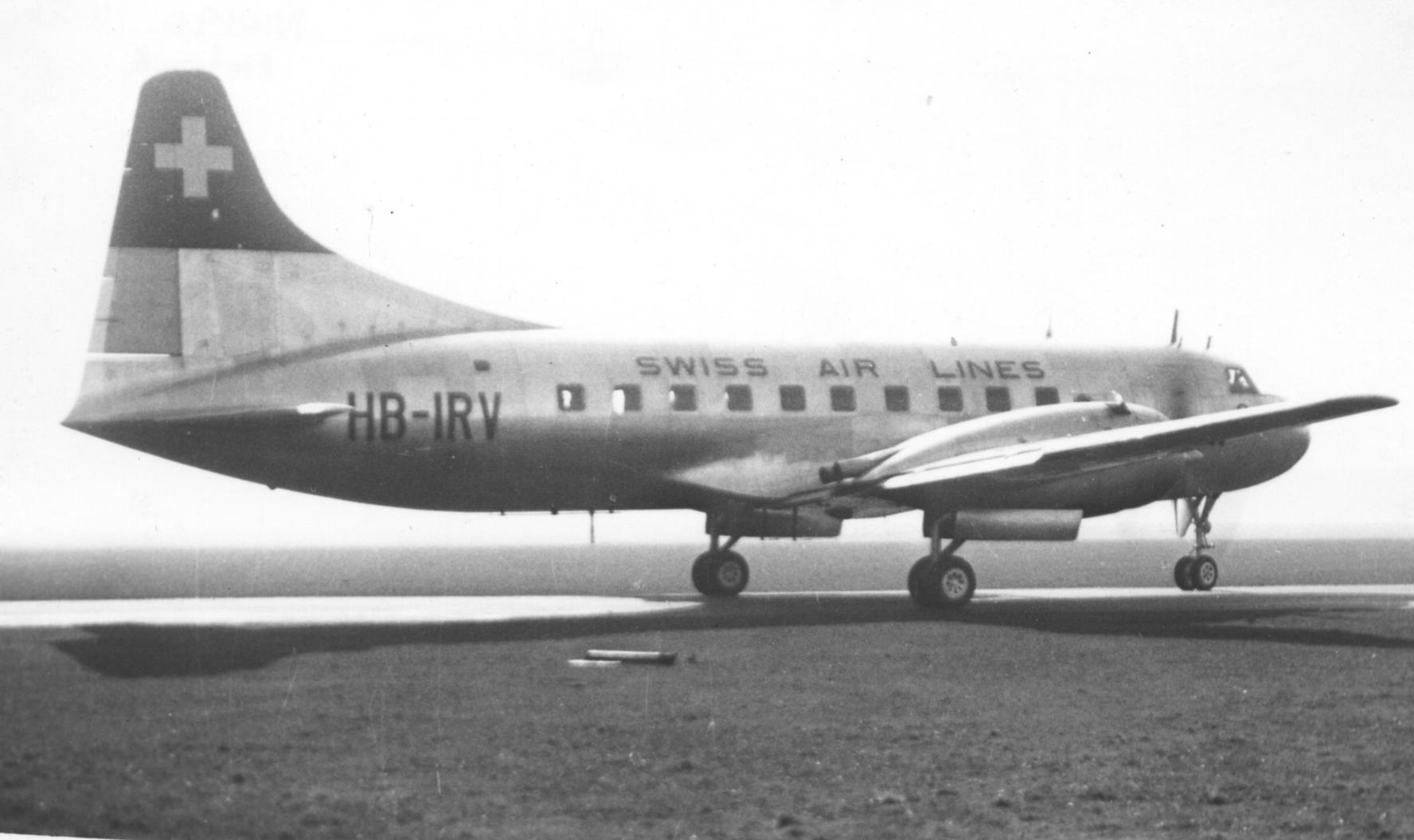 Convair CV240 of Swiss Air Lines at Manchester Airport